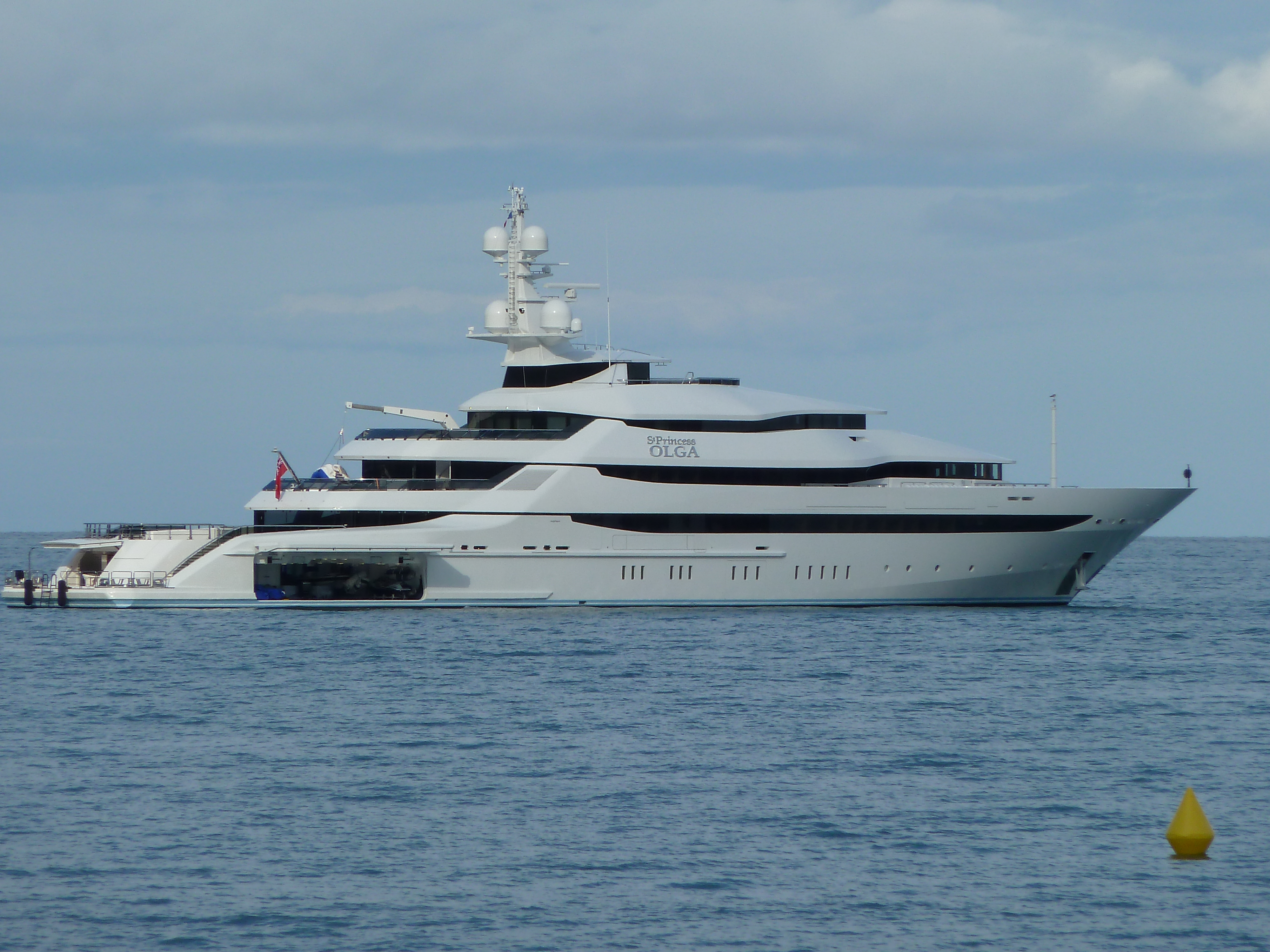 the yacht St Princess Olga moored off Antibes